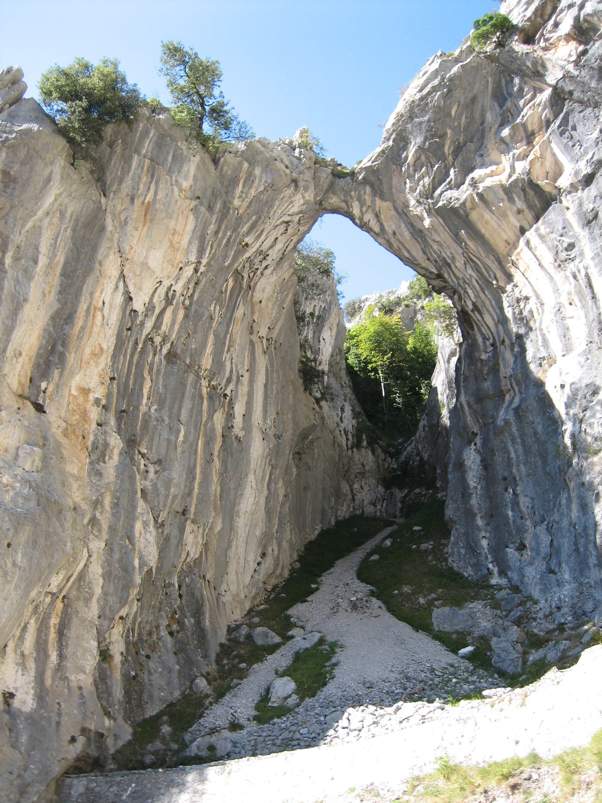 Picture of the Ruta del Cares